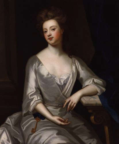 Sarah Churchill, 1702 by Sir Godfrey Kneller